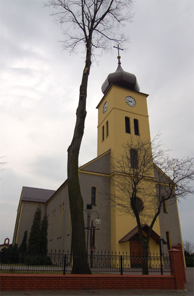 A photography of Church in Paniówki (Poland)